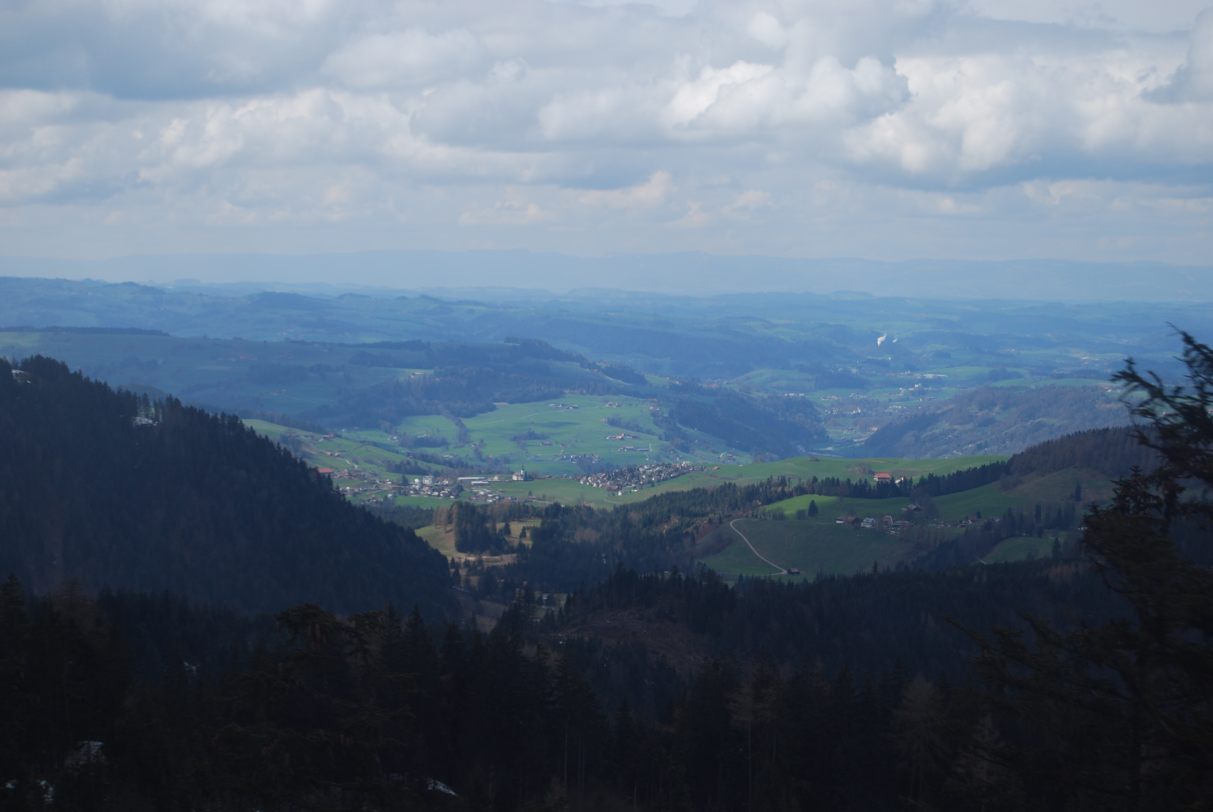 View from the Pilatus cableway to Schwarzenberg, canton of Luzern, Switzerland.